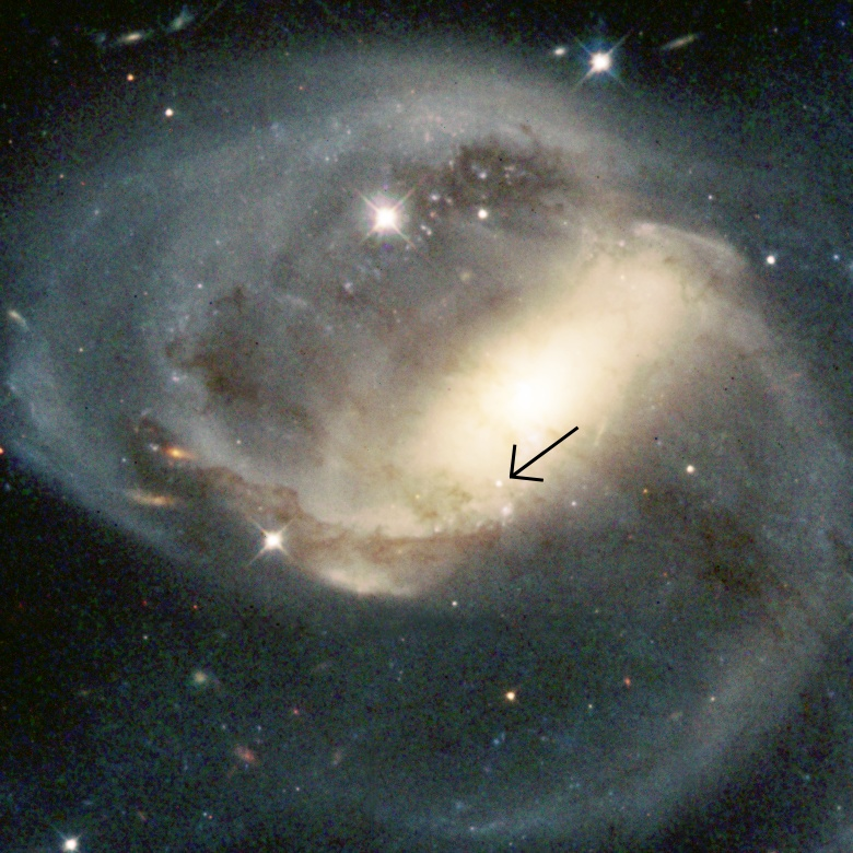 Quasar in NGC 7319.